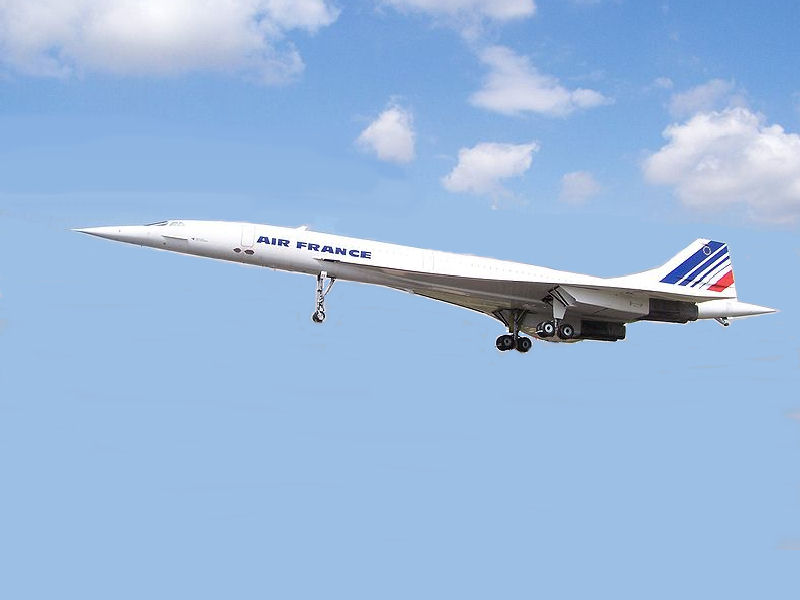 Artist’s impression of an Air France Concorde in flight.